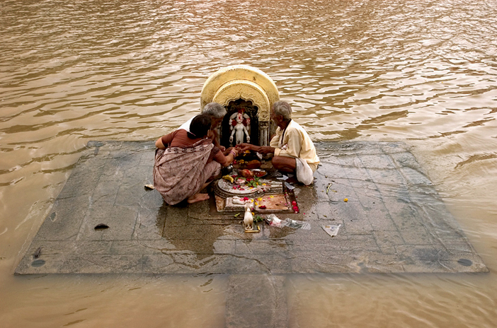 A puja, a Hindu prayer ritual, performed in the city of Ujjain during the Monsoon on the banks of of the overflooding Shipra river. The frame was removed by the uploader.